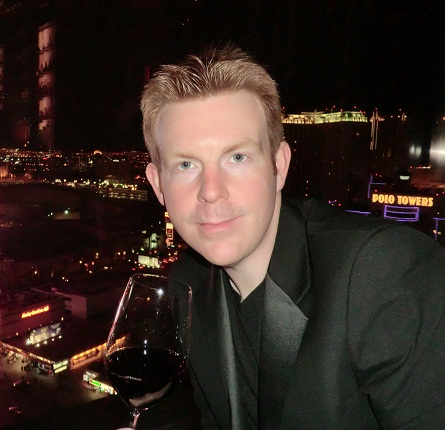 Alex Belfield Face Picture 2013